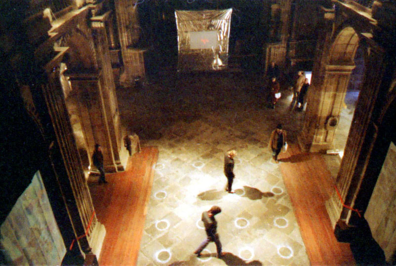 Camara de Musica, interactive sound and visual space, by Jean-Robert Sedano and Solveig de Ory, January 12 to 26, 1984, Collegiata San Juan Bautista, Gijon (Spain).